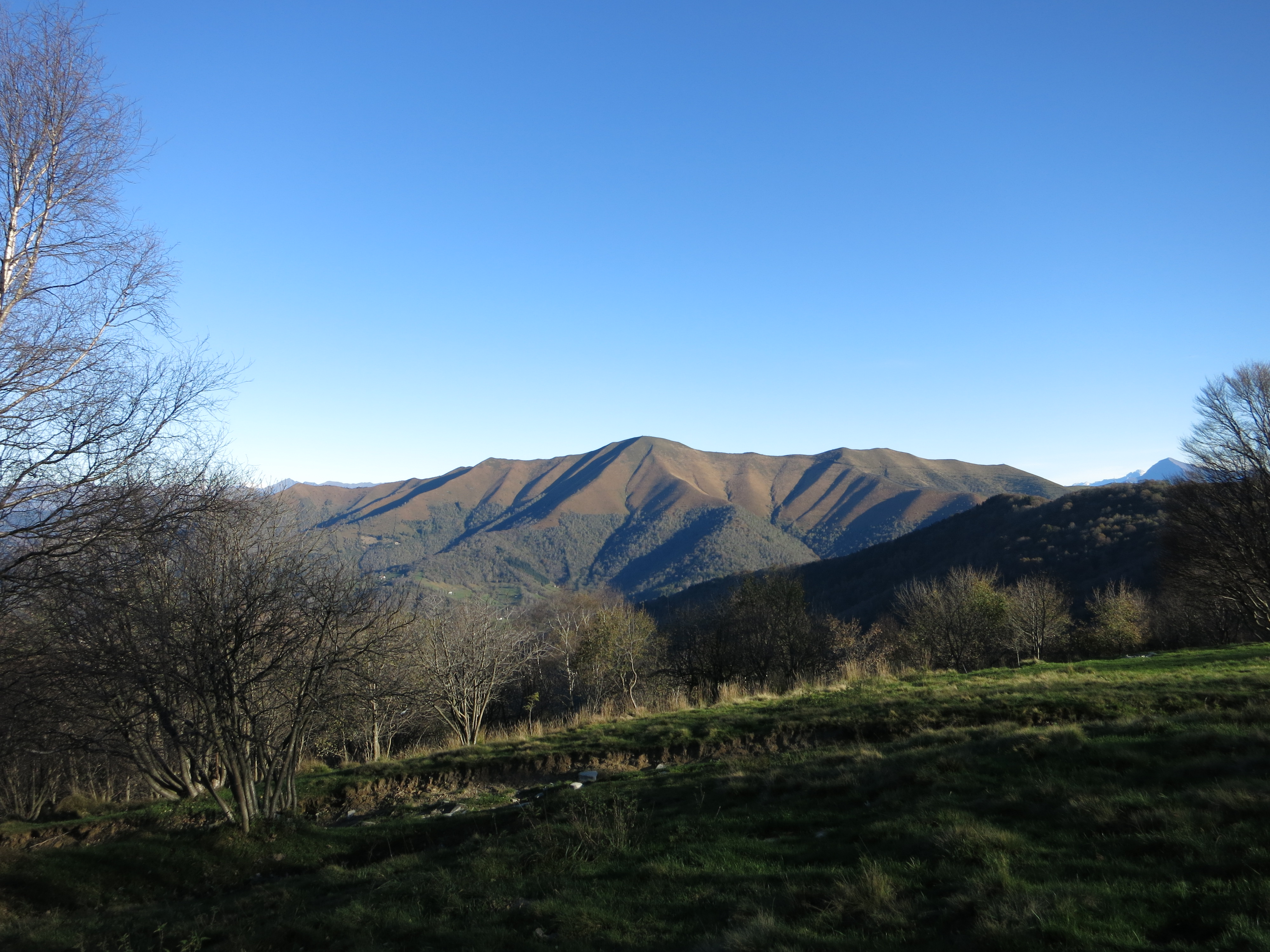 View towards Monte San Primo, Italy, from South